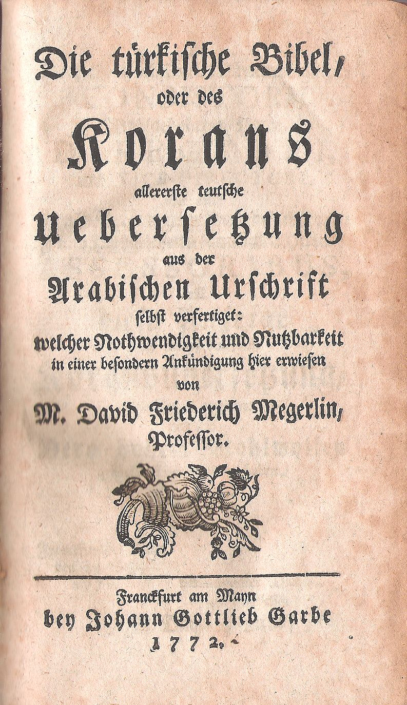 Title page of the first German translation of the Qur'án in 1772: „Die türkische Bibel, oder des Korans allererste teutsche Uebersetzung aus der Arabischen Urschrift“ by Professor M. David Friederich Megerlin 1772